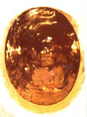 A close of the Black Stone in Mecca (1970s)